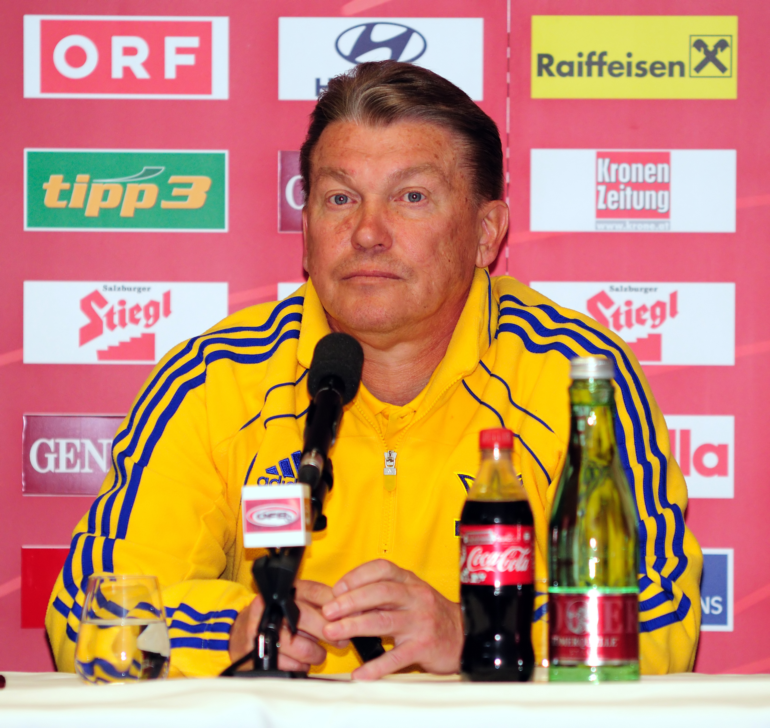 Innsbruck, Austria: press conference after Exhibition game Austria vs. Ukraine at 1st. June 2012 (coach Oleh Blochin)